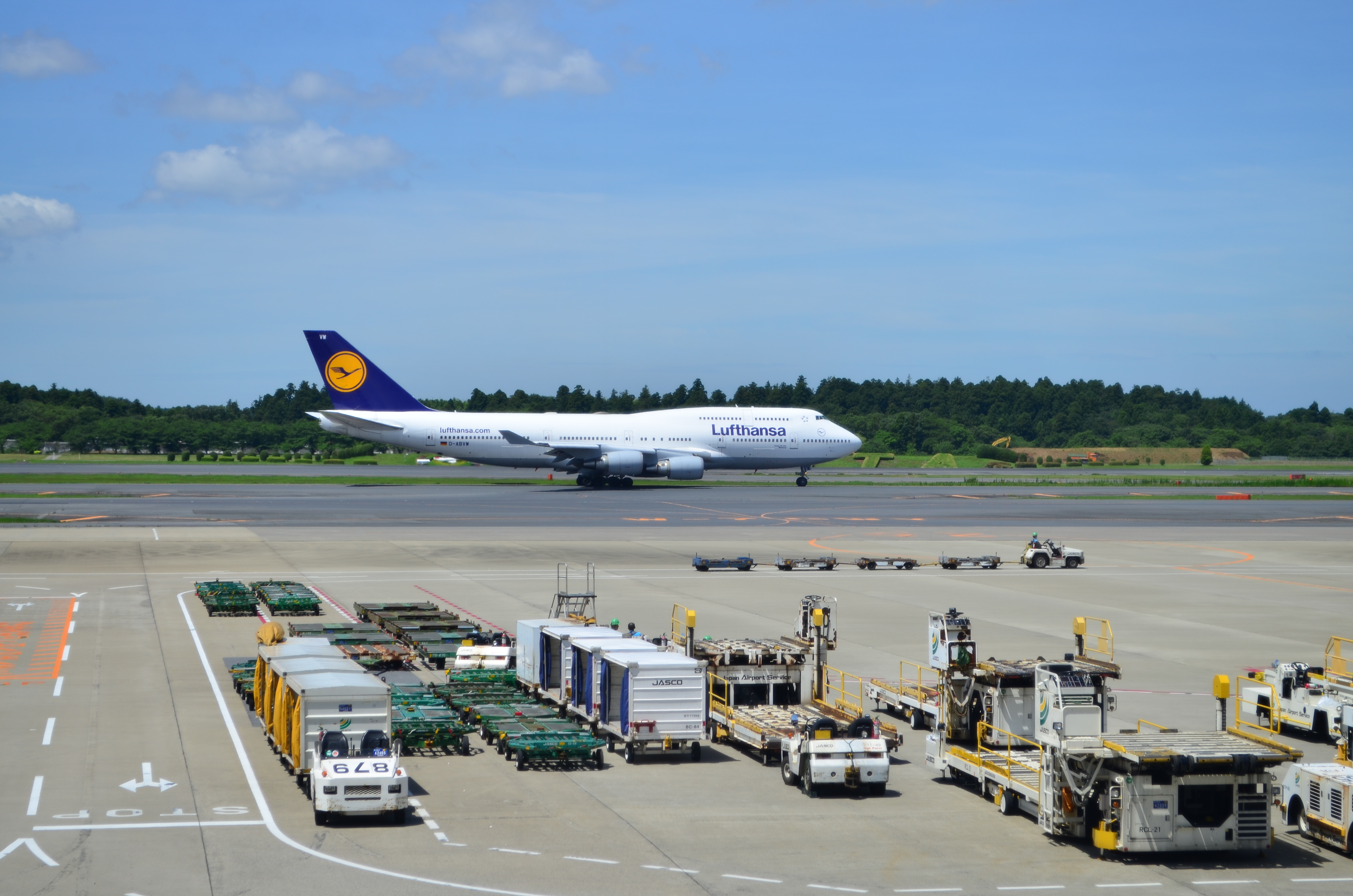 Narita International Airport